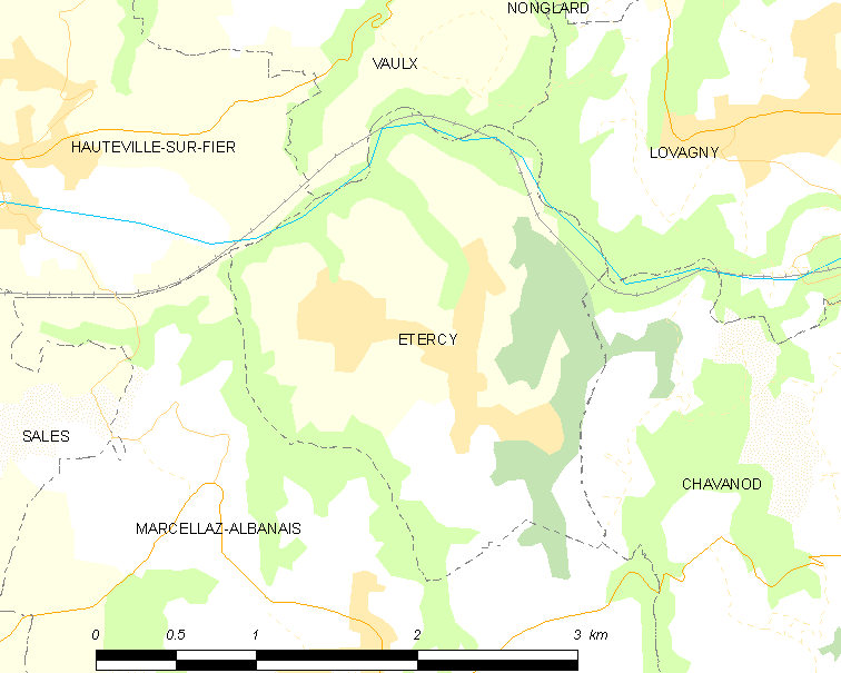 Map of French municipality Étercy